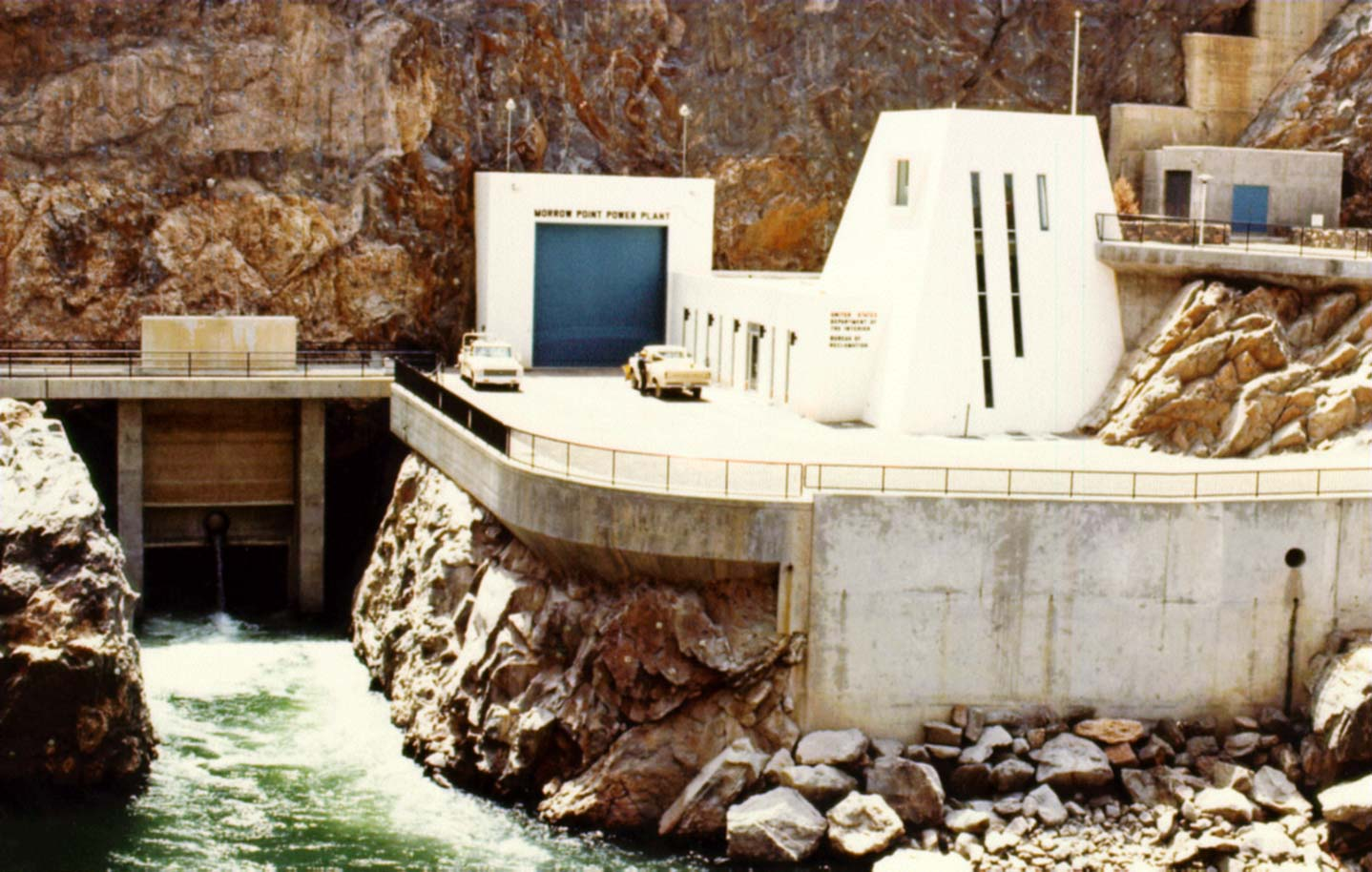 Exterior of the Morrow Point Powerplant, Colorado, USA